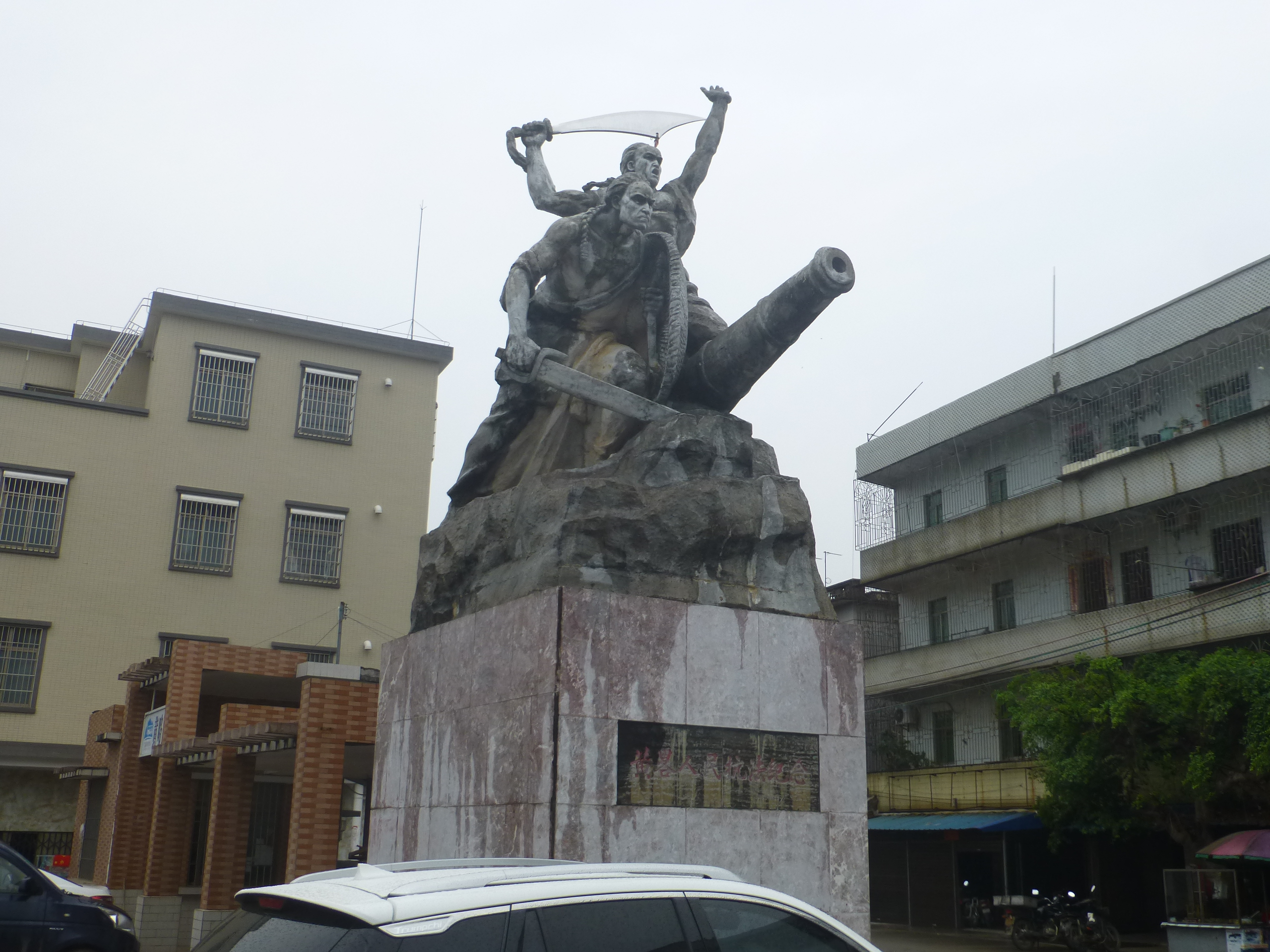 The central square of Huanglüe Town (Suixi County, Zhanjiang City), with a monument to the People's Resistance to the French.